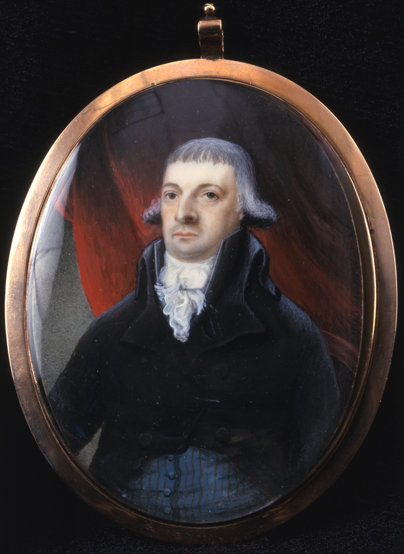 Portrait of John Brown by Edward Malbone